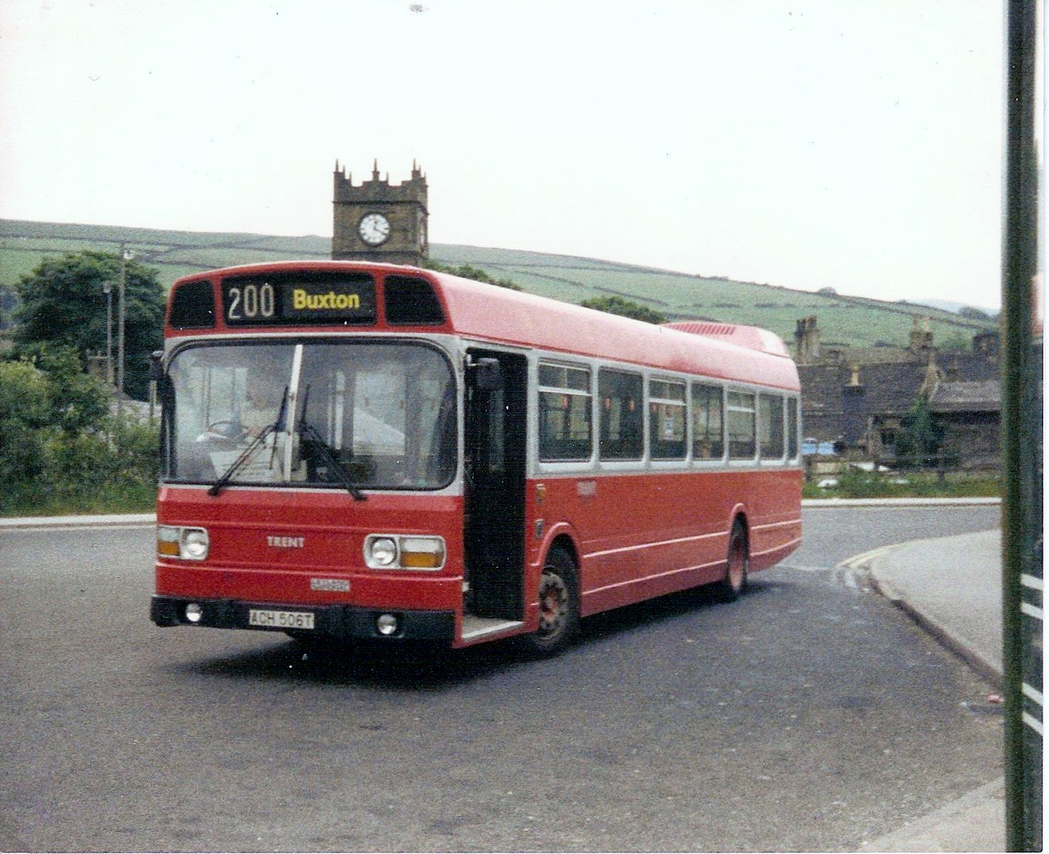 Built in 1978. Seen at Hayfield Bus Station on the 200 service to Buxton in the Ayres Red and Silver/ Grey livery. The 200 service number is now used elswhere in the Peak District, but was originally a Schooldays only service from New Mills/ Hayfield to Buxton, extending to Bakewell on a Monday. At first it used a Trent bus from a New Mills School service (usually an ex NWRCC Bristol RE). After de-reg it was worked by Glossop Outstation as a Monday only service to Bakewell, but this is on the later version of the 200. When Trent pulled out of Glossop in 1987, they retained the 394/399 and this 200 is a lunchtime positioning journey, used to get the bus back to Buxton depot and reduce the 'dead' mileage.